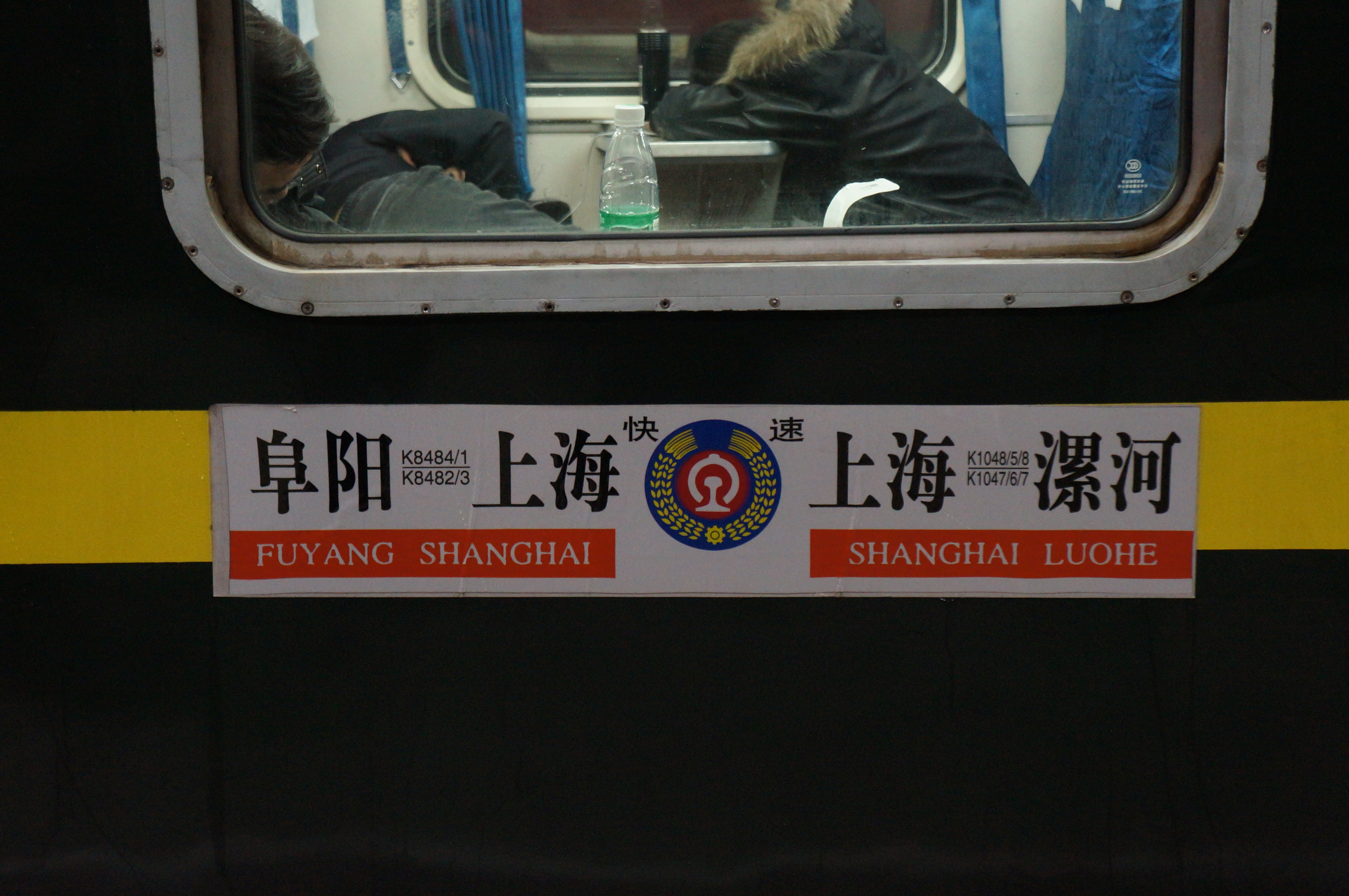 K1045 46 47 48 and K8481 2 3 4 infoboard in 201812, taken during K8481's stopover at Bengbu Station